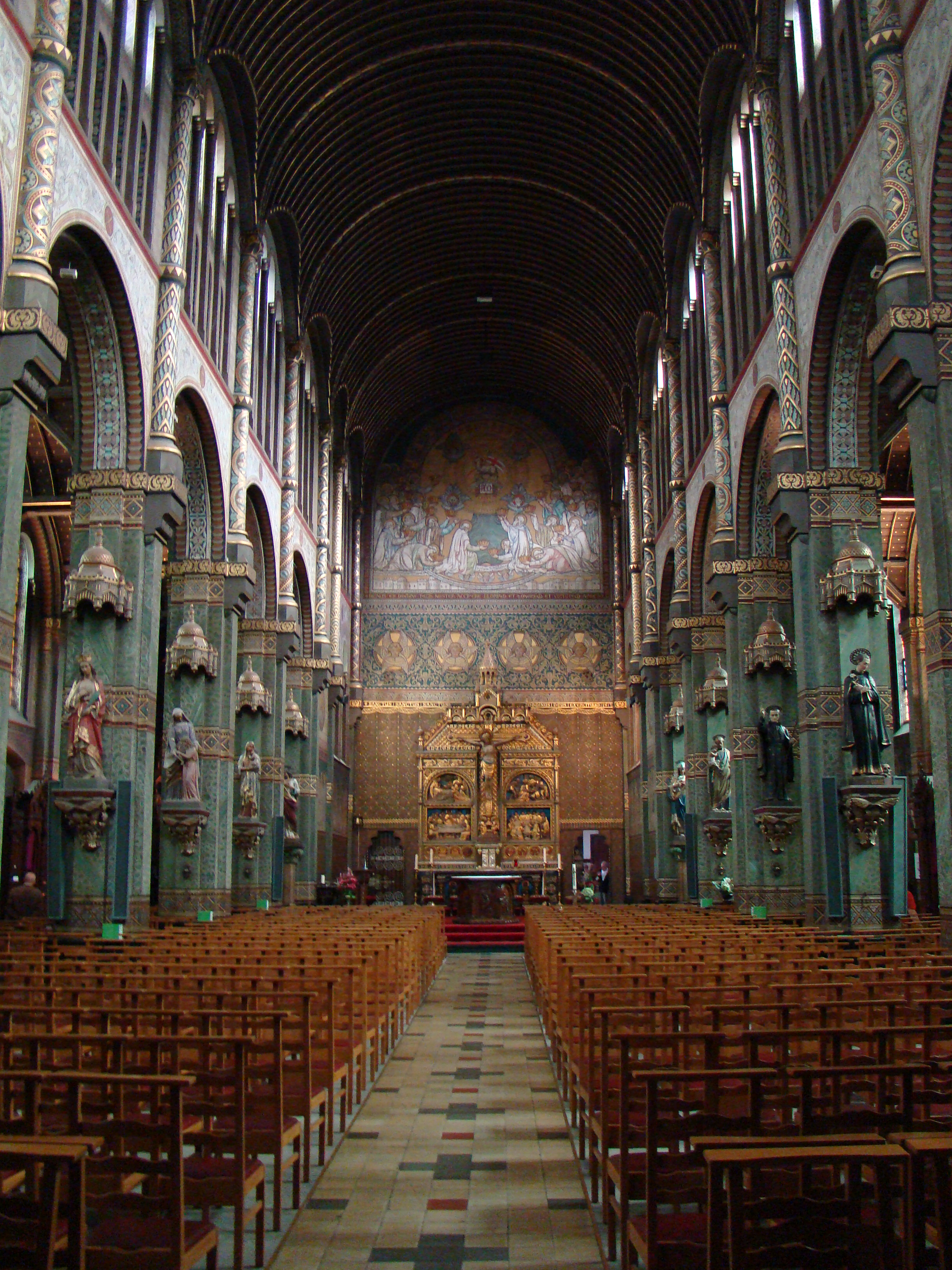 St Antony church Passionists, Kortrijk (West Flanders, Belgium)